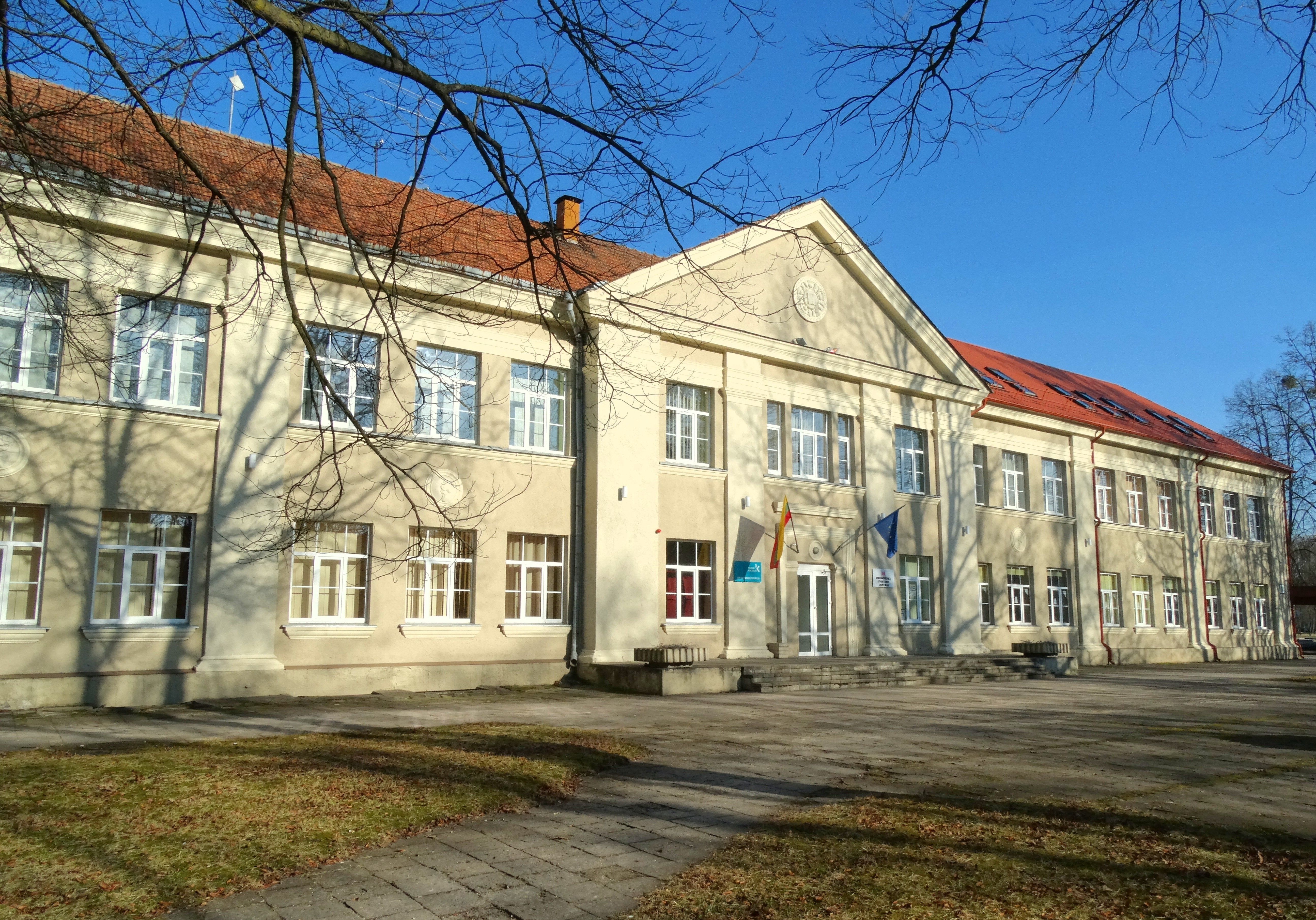 Education centre, Druskininkai, Lithuania